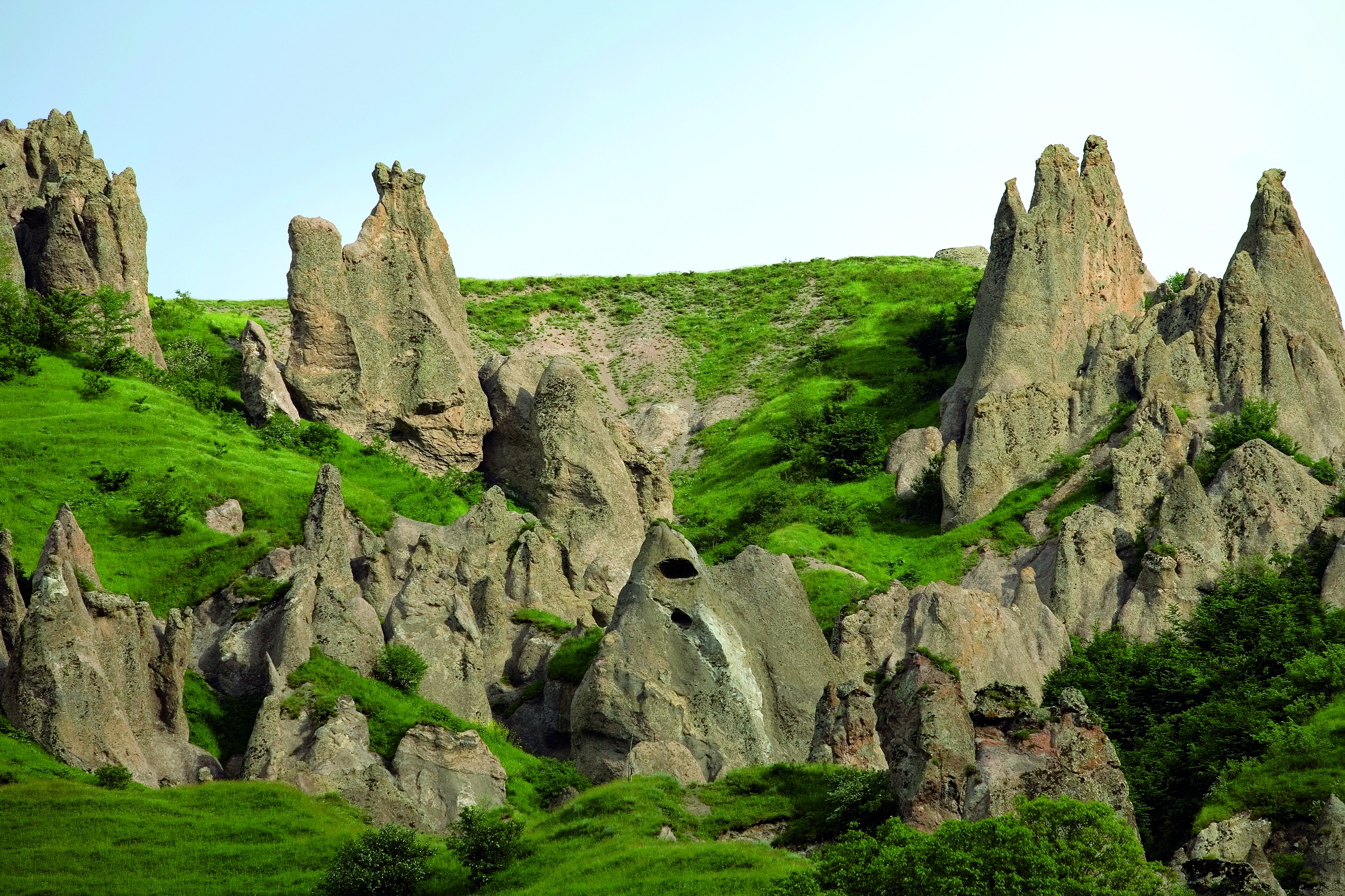 The Stone Pyramids in Goris